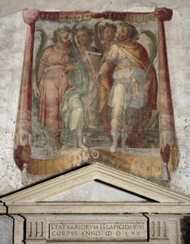 Entrance of San Silvestro chapel, at Basilica dei SS. Quattro Coronati, Rome, with painting of Four Crowned Martyrs.